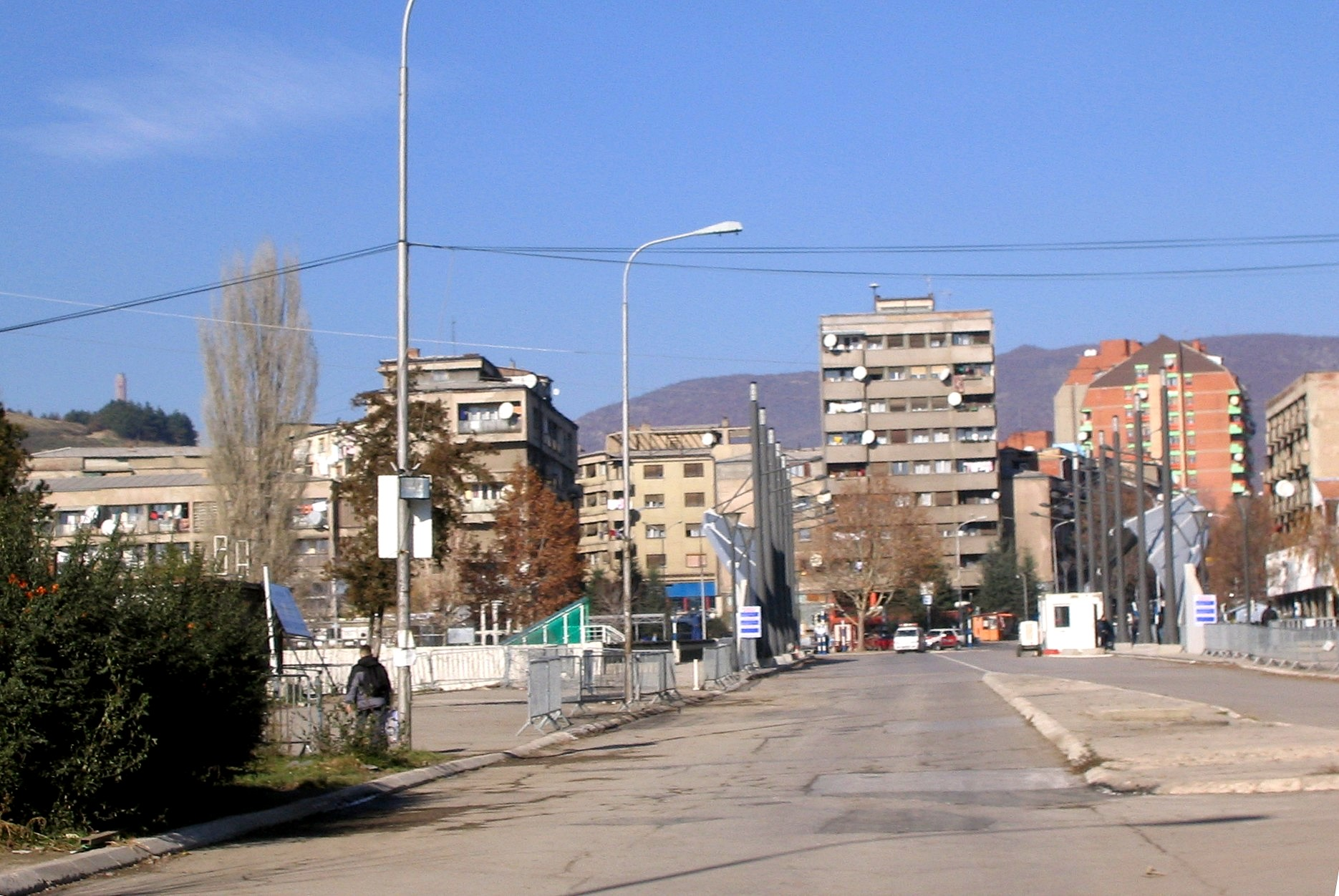 Kosovska Mitrovica (bridge dividing the city)